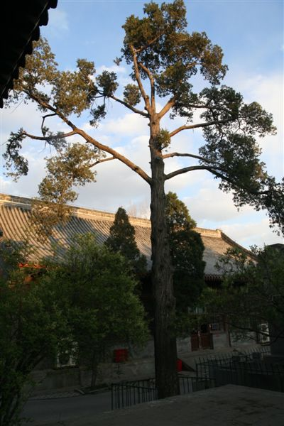 Platycladus orientalis tree in Bailin Temple, Beijing